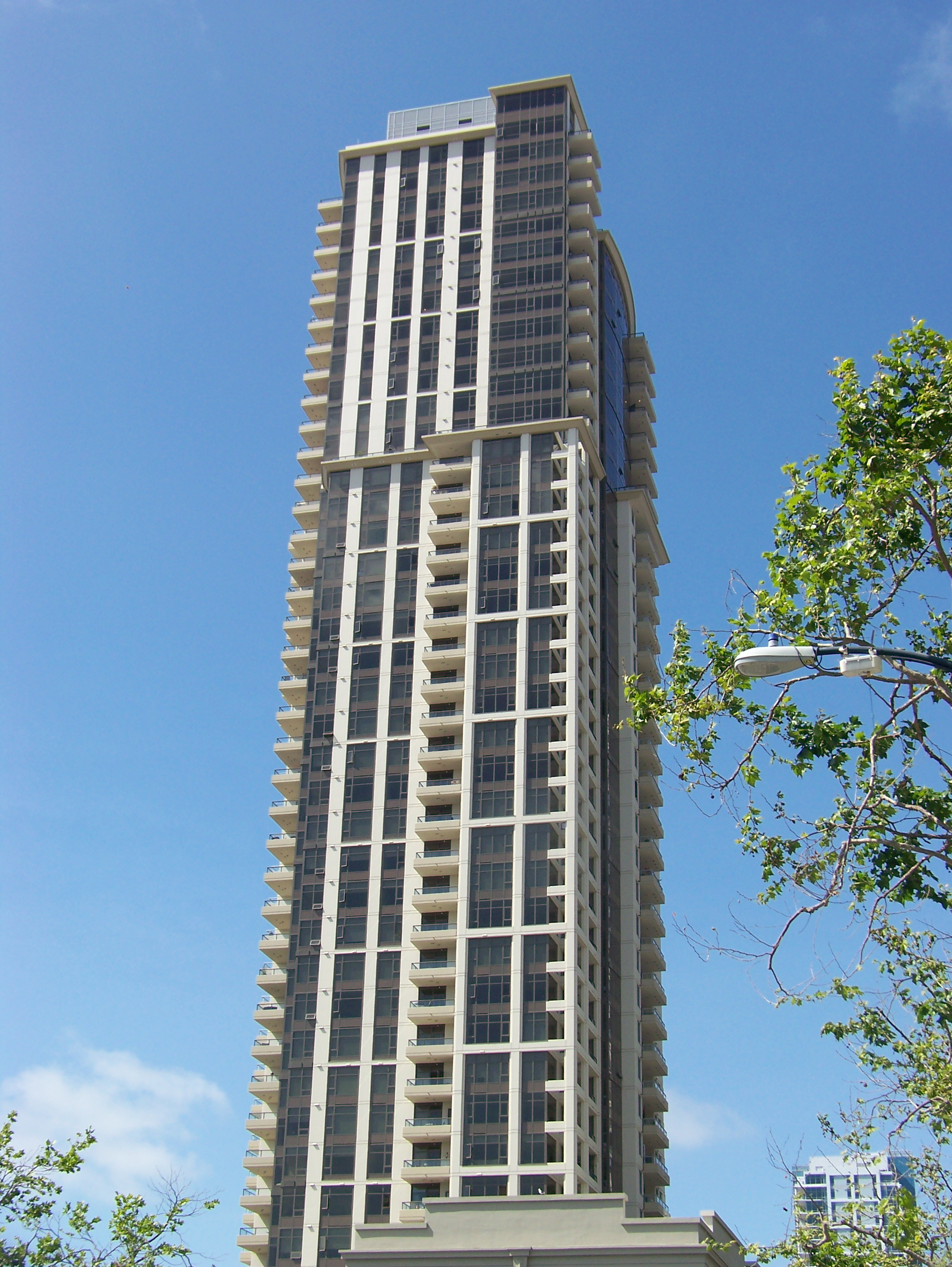 Electra skyscraper in San Diego, California. Construction of the building was completed in 2007.